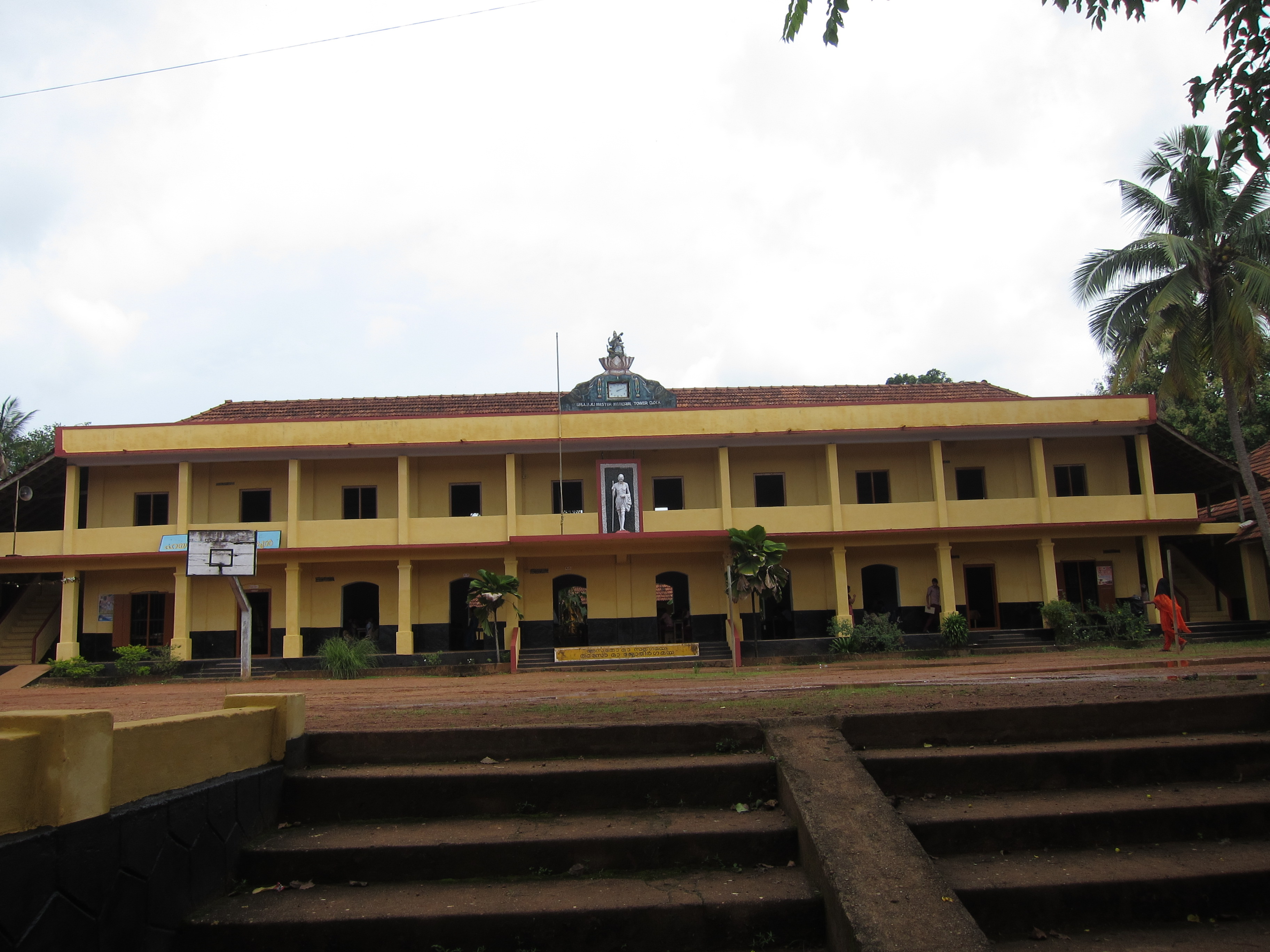 Ashtamichira - Gandhi's Smaraka Higher Secondary School Government Aided School - Run by N.S.S Mala Sub-district (Educational) Irinjalakuda District (Educational) Thrissur District 10 km away from Chalakudy 100 m away from Ashtamichira Junction